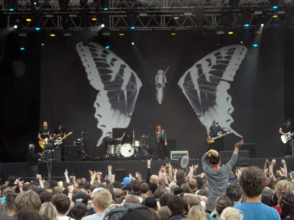 Hove festival 2010 - Paramore